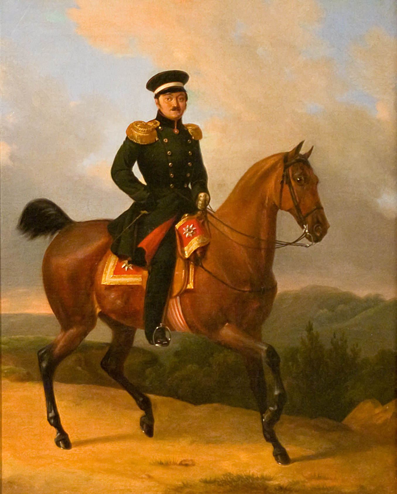 Unknown painter of 19th cent. Portrait of the colonel of P. Norov. 1840s, Canvas, oil